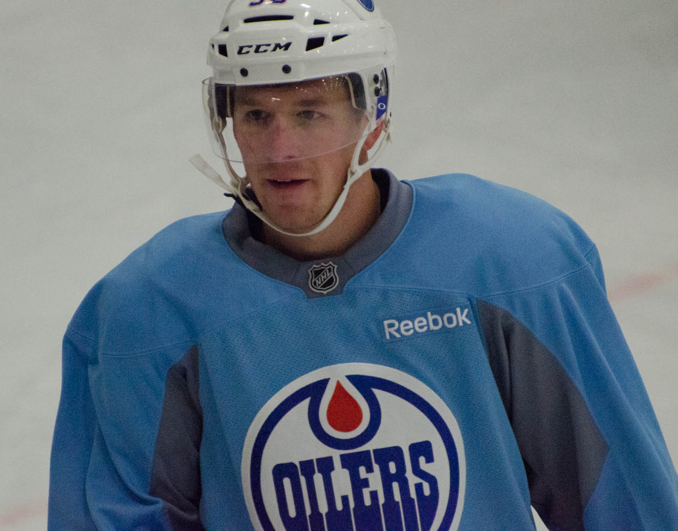 Andrew Miller at an Edmonton Oilers practice, Sept. 27, 2014